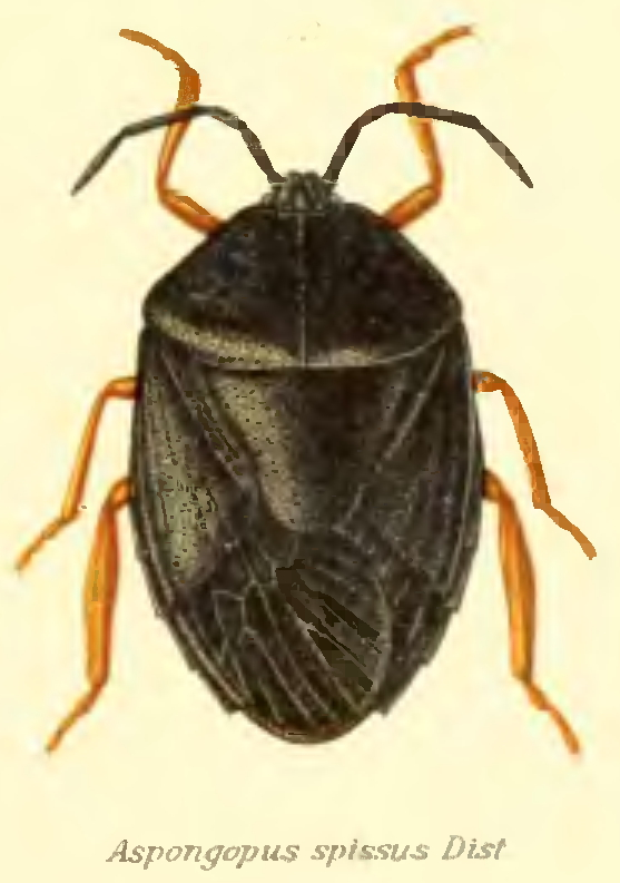 Coridius spissus, Dinidoridae. A typical member of suborder Dinidorinae